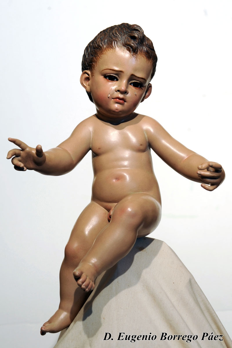 Niño Jesús